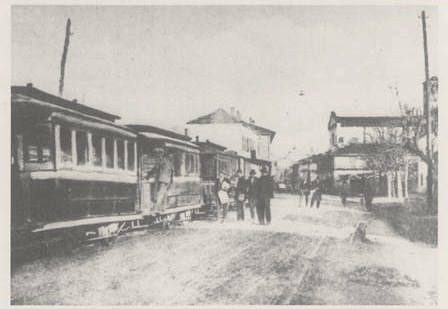 Gattinara, steam tramway